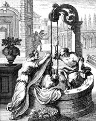 Woodcut of the story from 2 Samuel 17:19